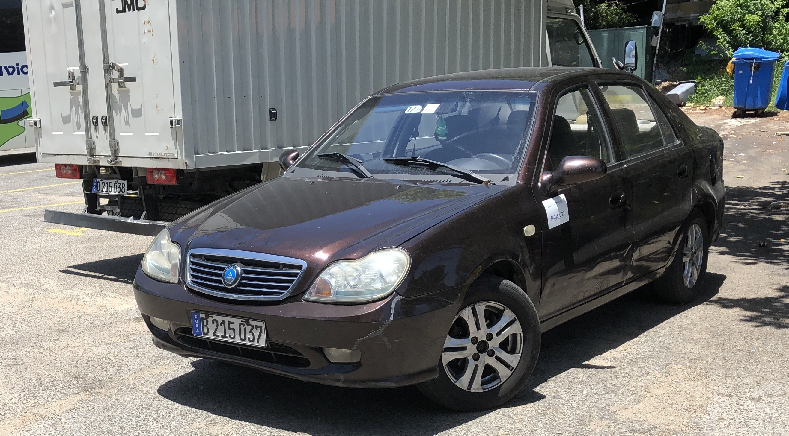 This is a pre-facelift model of a Geely CK In Havana, Cuba